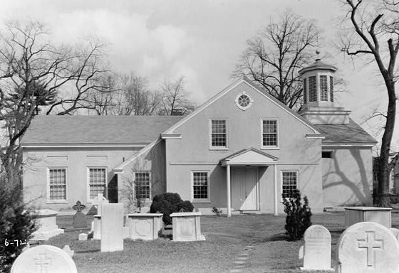 Old St. Mary's Church, West Broad & Wood Streets, Burlington (Burlington County, New Jersey) (cropped)